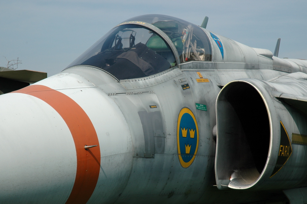 Air intake on Saab JA 37 Viggen fighter (displayed at the Museum of Hungarian Air Force, Szolnok)